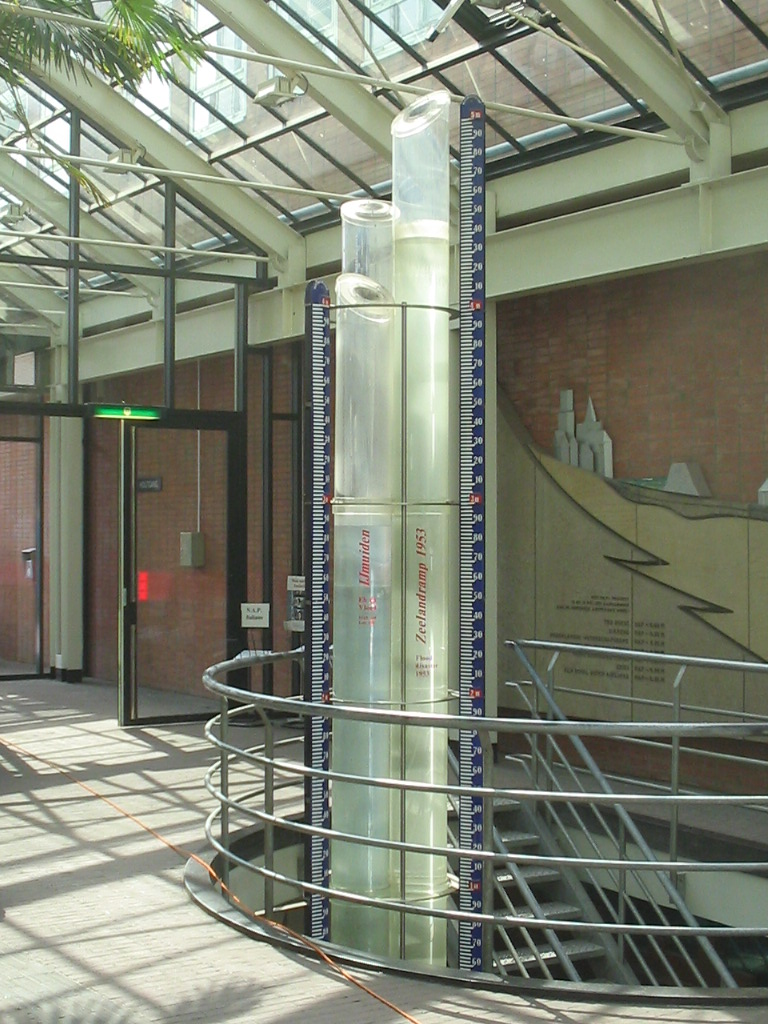 NAP (reference water level), Amsterdam